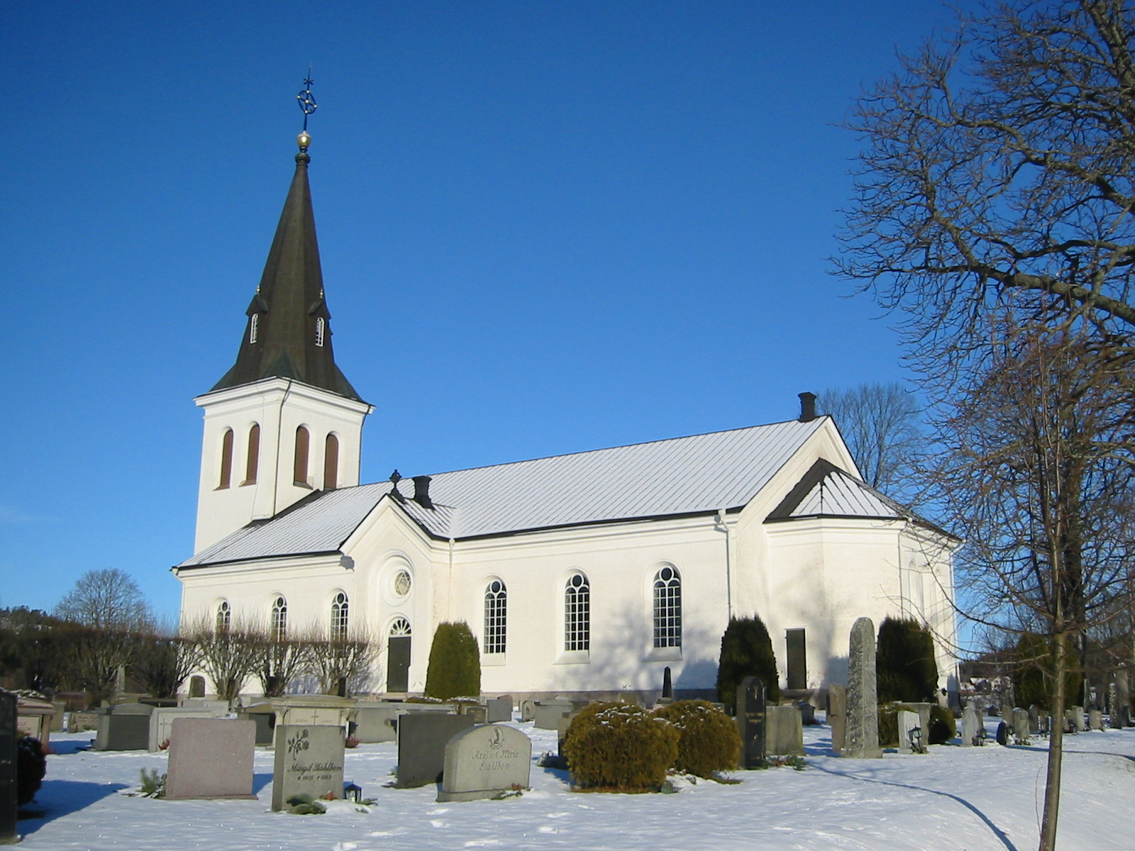 Church of Hannäs